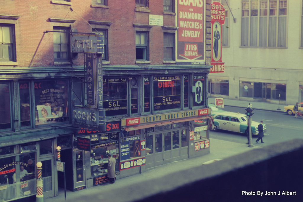 Hanover Hotel, New York City, 1952, 43rd Street and 6th Avenue was an inexpensive hotel located at 101 West 43rd Street on the northwest corner of 43rd Street and Sixth Avenue (now called Avenue of the Americas). It was here where Woody Guthrie wrote his best known song, This Land is Your Land, (originally titled God Blessed America) on February 23rd, 1940.